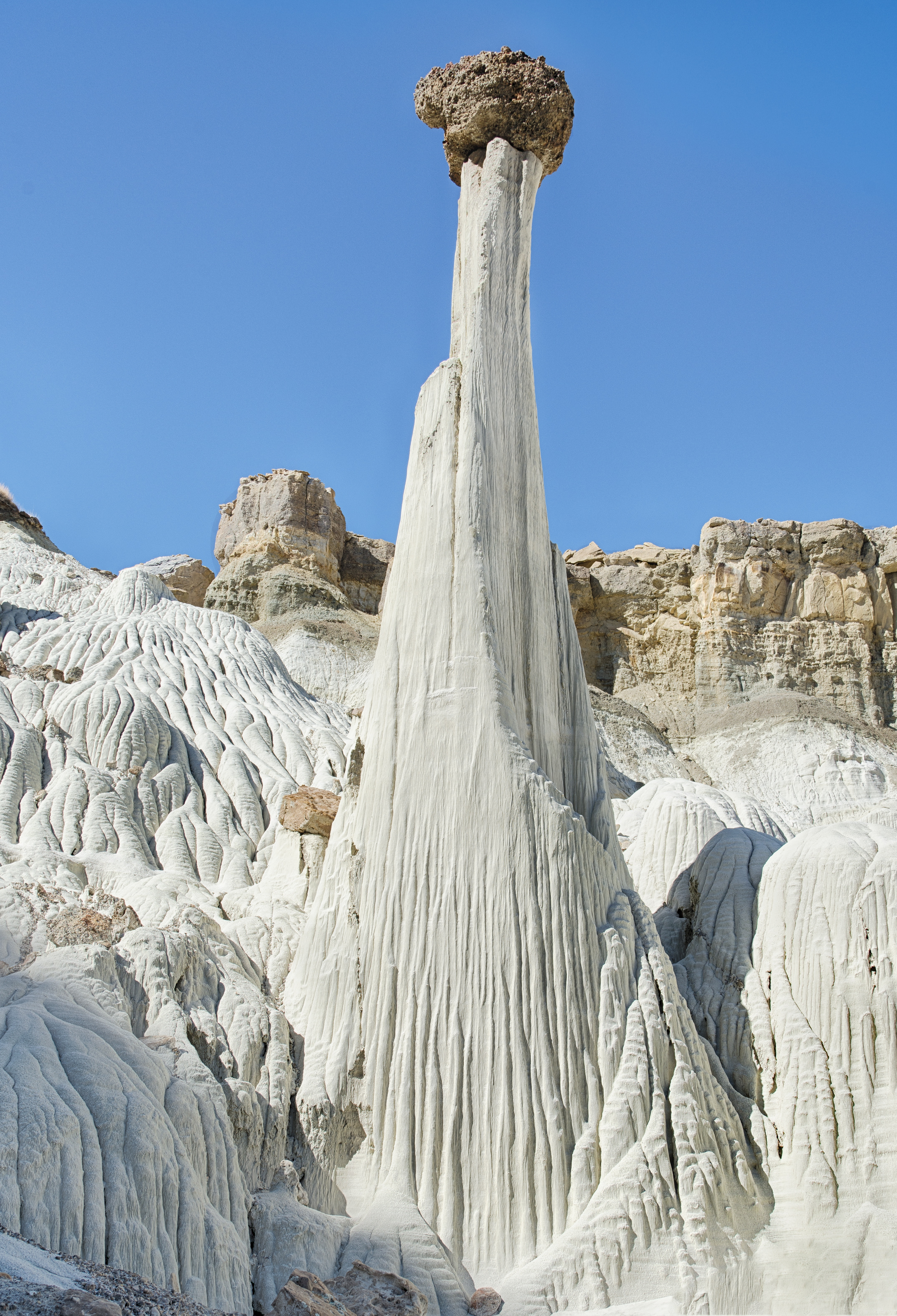 Wahweao Hoodoo. See my trip report with more photos here: The Wahweap Hoodoos are a five-mile hike up Wahweap Creek from Big Water, Utah. there are three groups of hoodoos separated by a few hundred yards. The best ones for photography are in the final group. The low sun angle in fall and winter puts most of these in the shade. We werelucky to get probably the most prominent one still in the sun late in the morning.